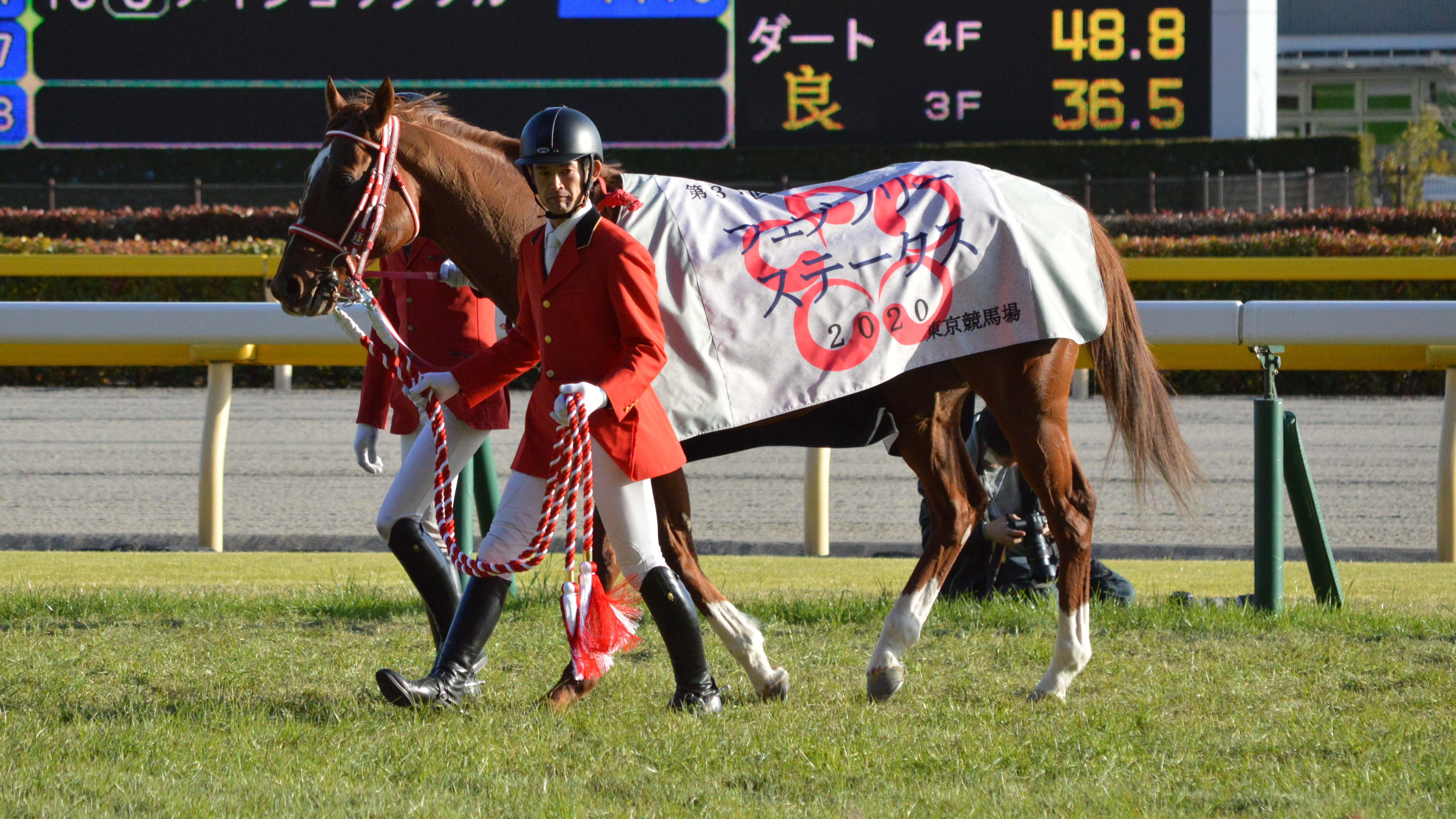 Japanese race horse Mozu Ascot at Tokyo racecourse. Tokyo (JPN) 23 Feb 2020February Stakes (Grade 1) (4yo+) (Dirt) 1m Standard RankHorse NameOddsAgeWgtJockeyTrainer1stMozu Ascot (USA)18/10FH69-0Christophe-Patrice LemaireYoshito Yahagi2ndK T Brave (JPN)141/1H79-0Yoshihito NagaokaHaruki SugiyamaOthers are omitted. (16 horses entered in a race.)